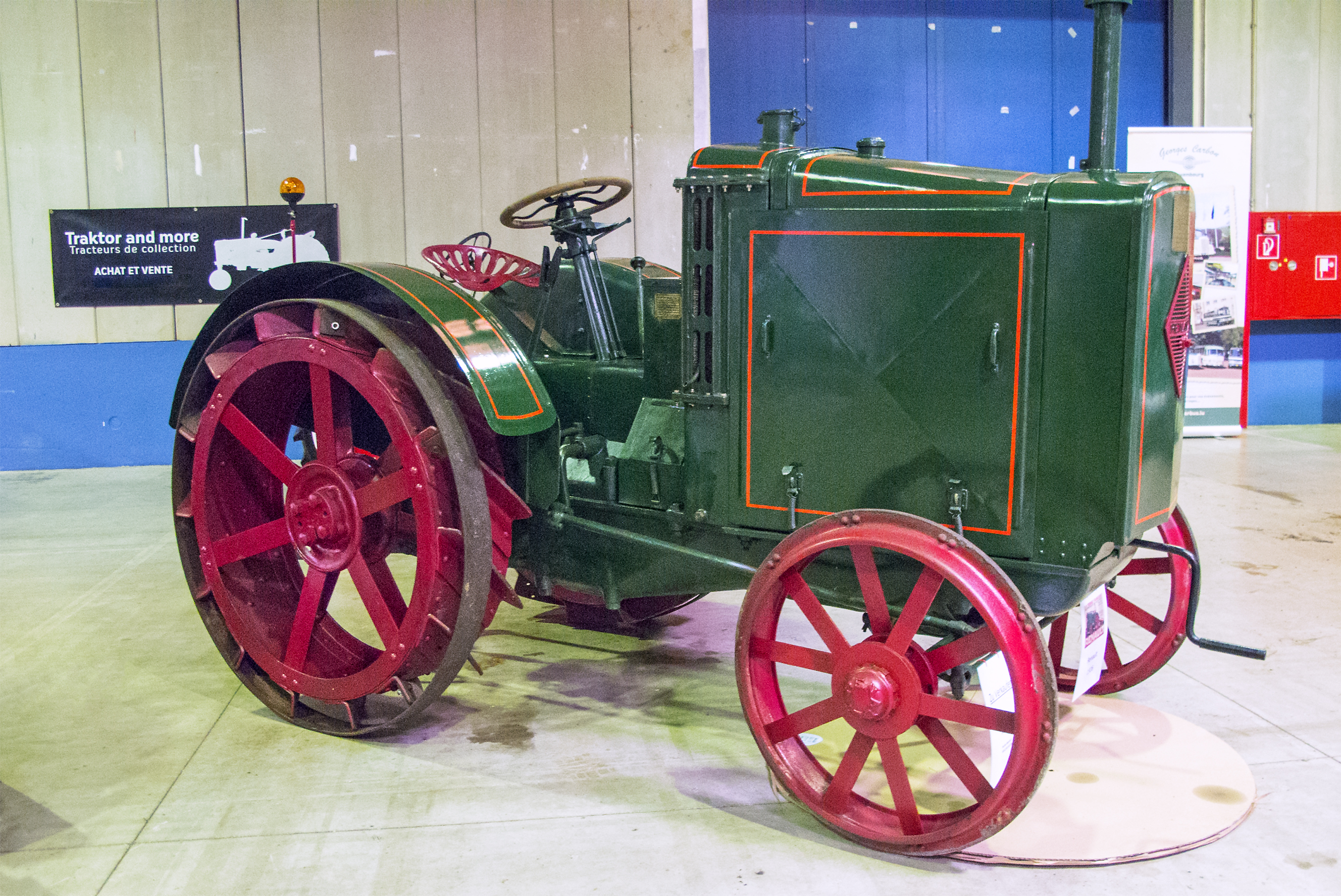 1926 Renault PE tractor on the Autojumble Luxembourg 2014